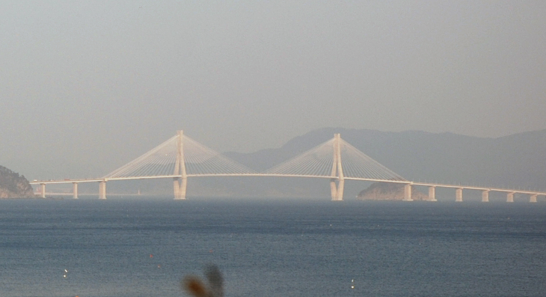 East Section of Goega Bridge